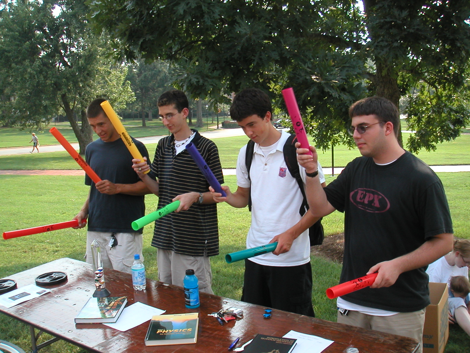 SPS at Elon Organization Fair with Boomwhackers